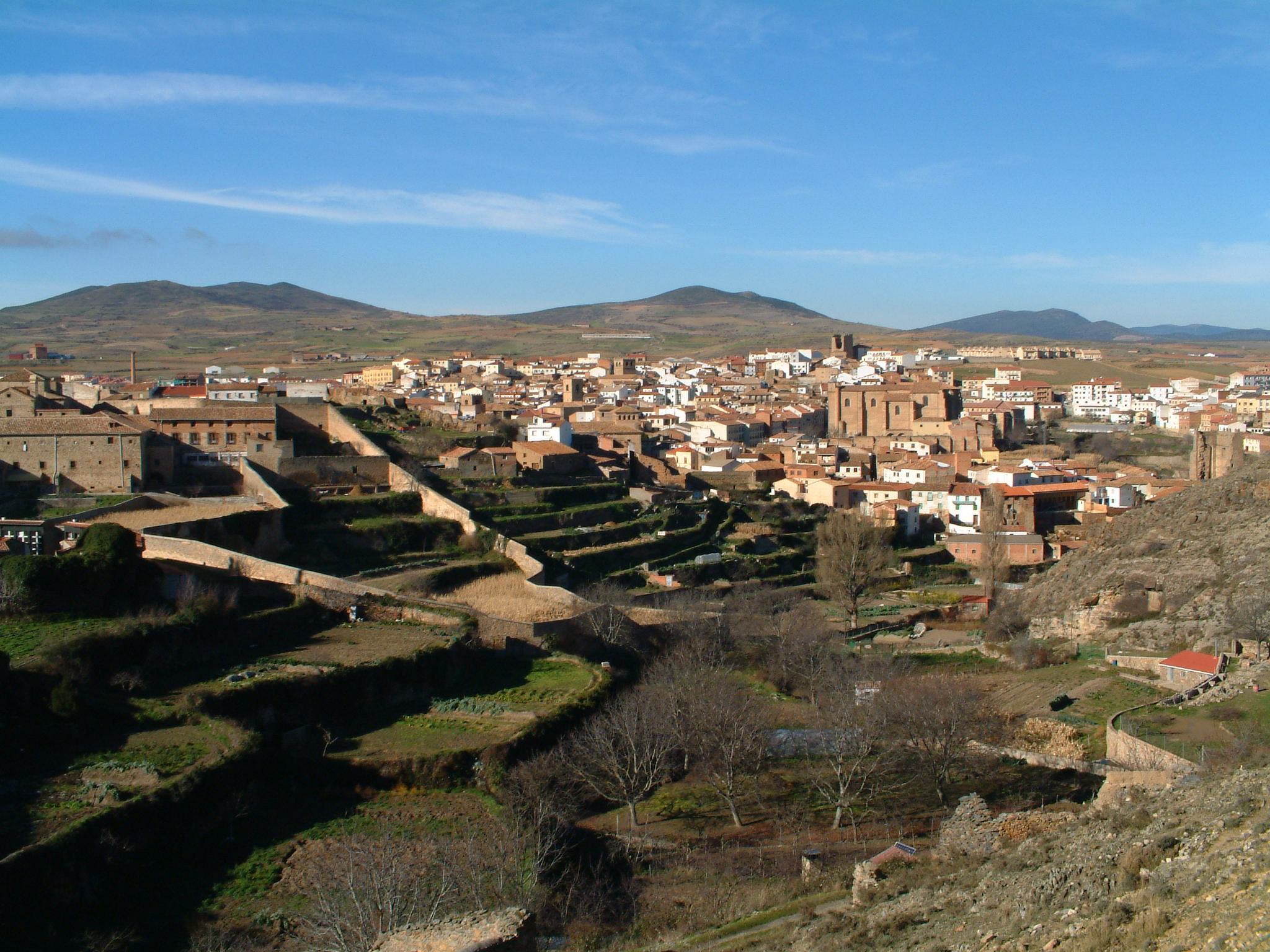 Ágreda, Soria, Spain